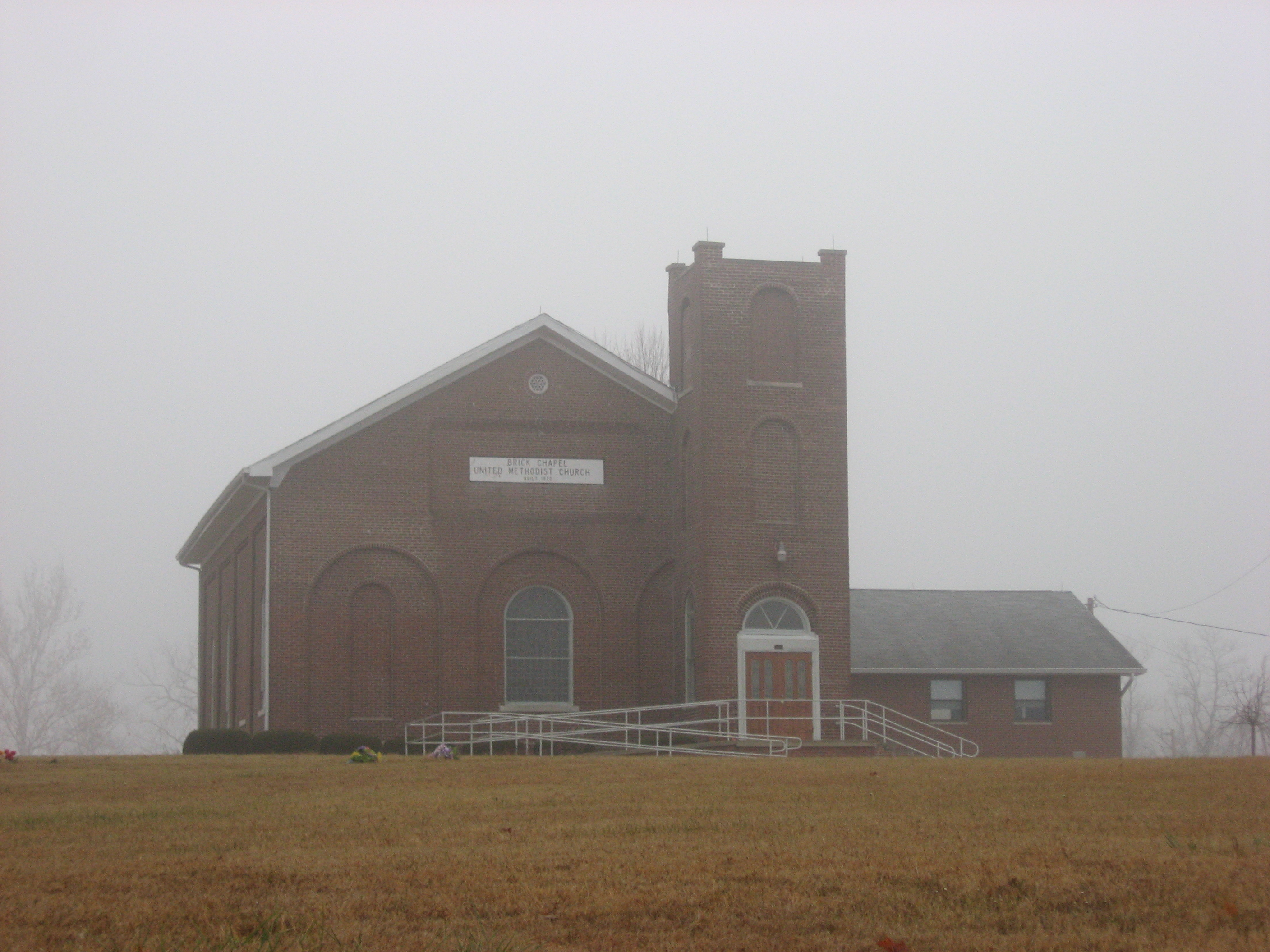 Front of the Brick Chapel United Methodist Church, located at 3547 N. U.S. Route 231 north of Greencastle in Putnam County, Indiana, United States. Built in 1872, it is listed on the National Register of Historic Places.